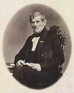 Marcus Glahn (1781-1868), Danish Major General